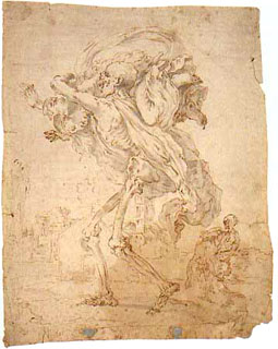 Drawing of a skeleton made by Hipòlit Rovira.